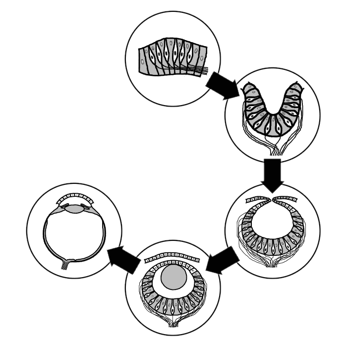 Evolution of Eyes